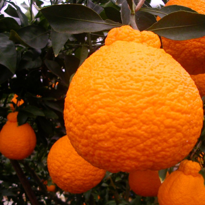 Photo of a Japanese Dekopon citrus fruit at a greenhouse on the outskirts of Ueki, Japan.